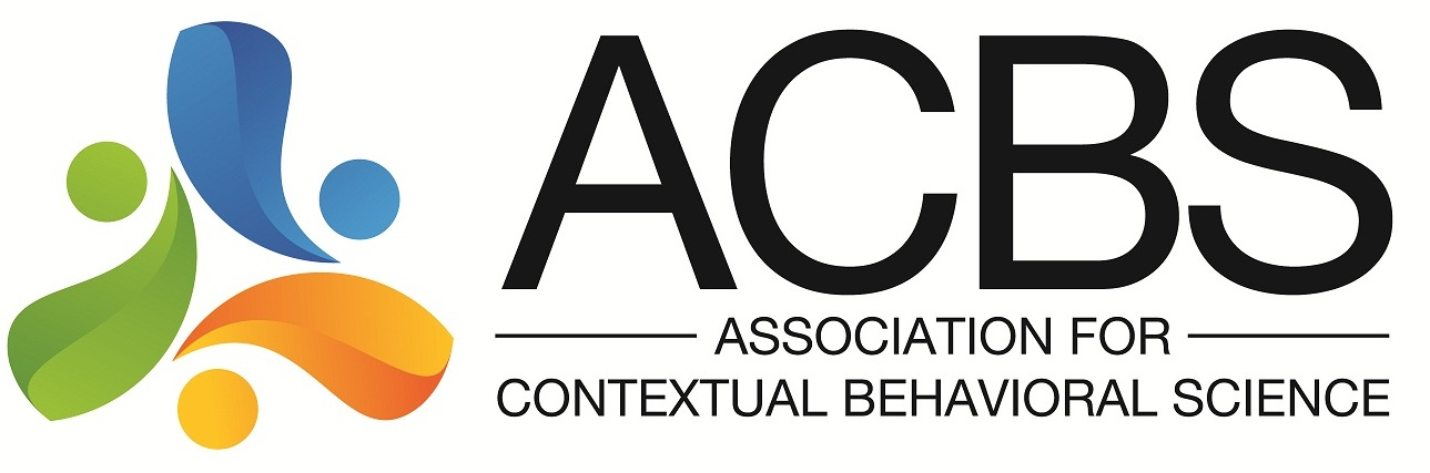 Authored by ACBS, Association for Contextual Behavioral Science. Publicly used logo for association.